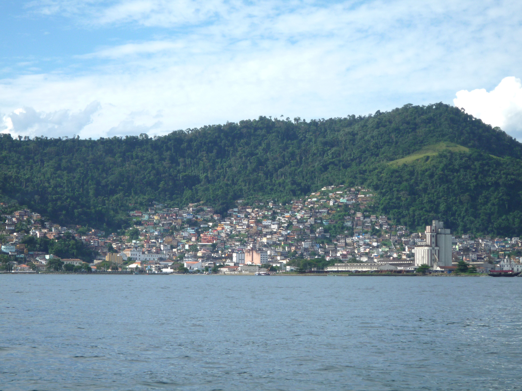 View of Angra dos Reis, Brazil